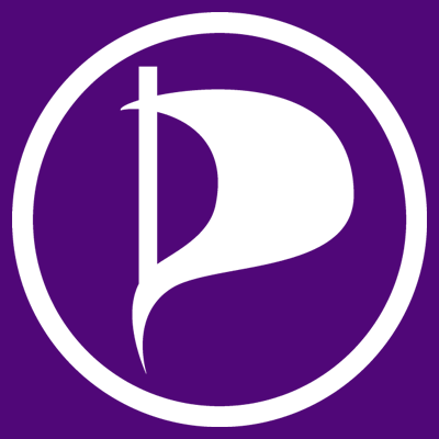 The predominate modified logo used by the Pirate Party of Canada